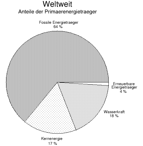 Fractions of primary energy world wide in order to generate electricity